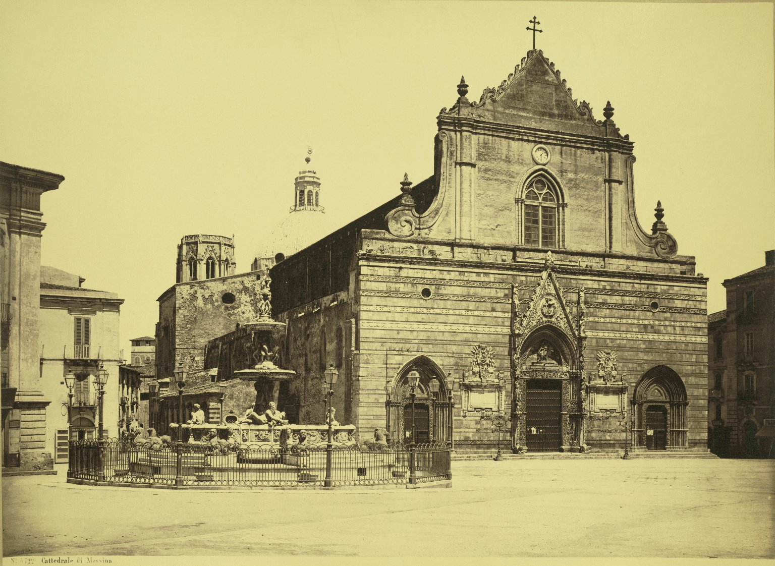 Giorgio Sommer (1834-1914), "Cathedral of Messina". Catalogue # 4722.